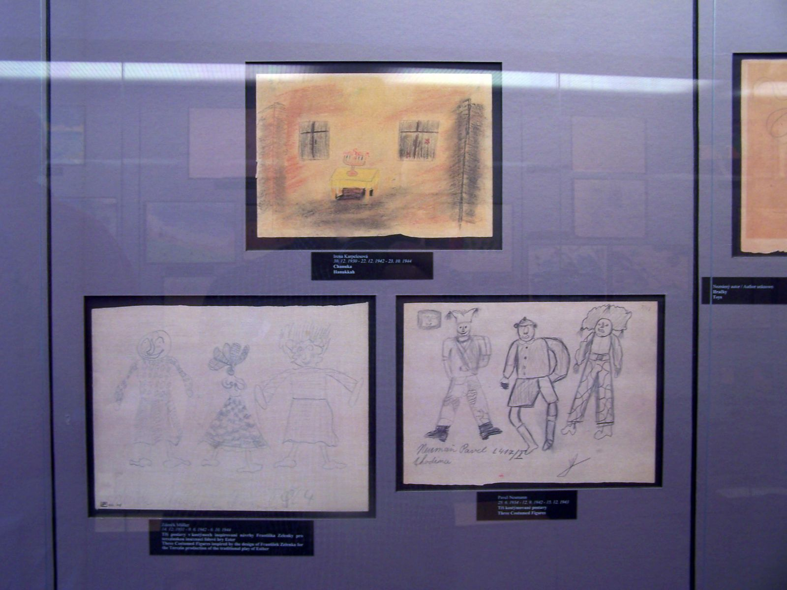 Praha - Jewish Museum - Children's drawings from Theresienstadt